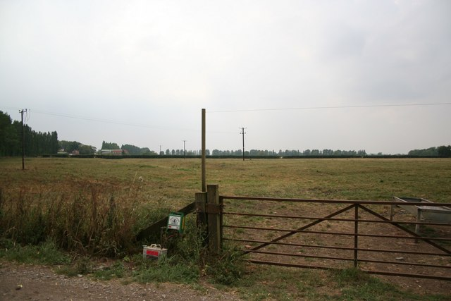 Coates. The tiny hamlet of Coates by Stow is much smaller than its medieval origins. This field has the earthworks of lost streets and houses, looking towards Hall Farm from near Grange Farm.